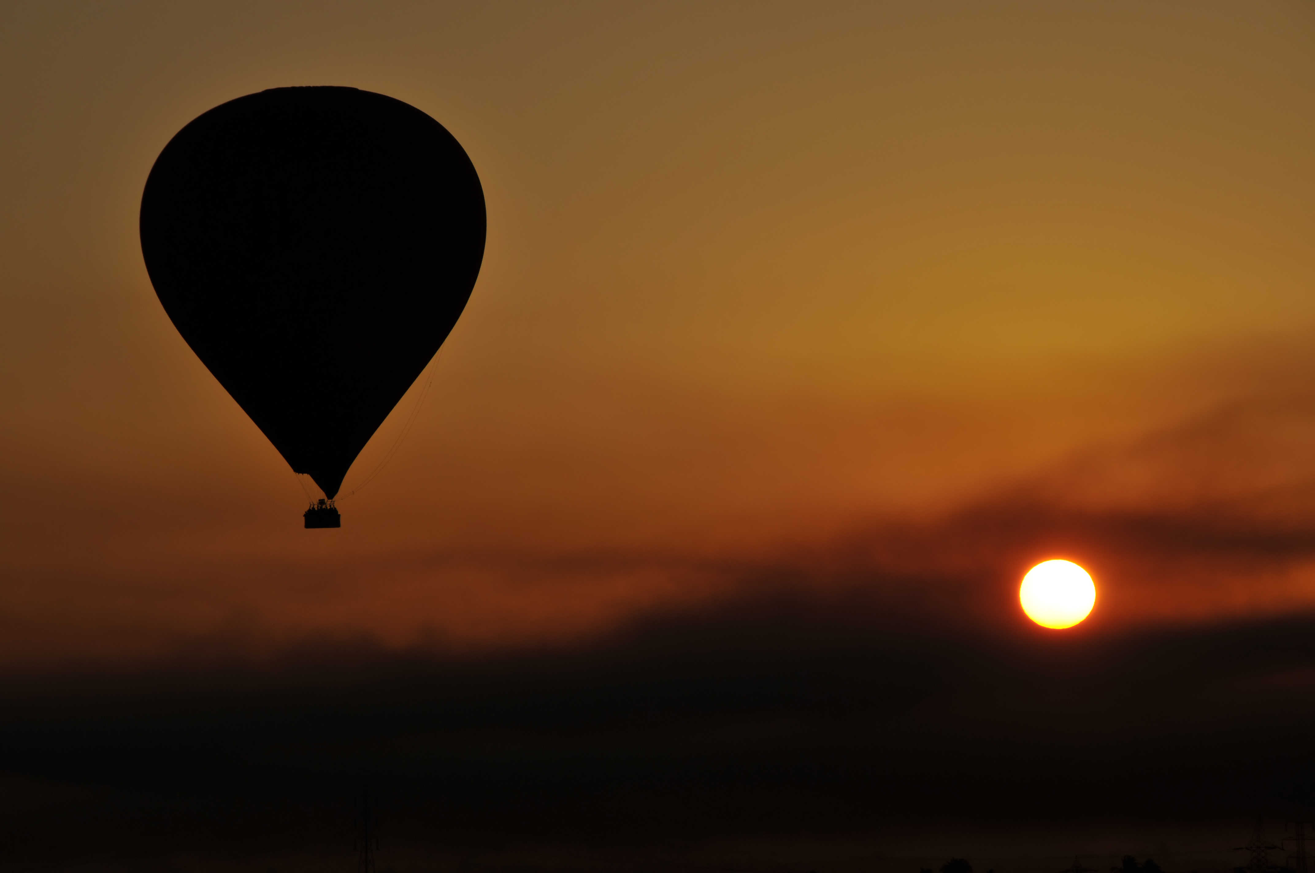 Early morning Balloon flight over the West Bank in Luxor - Egypt.